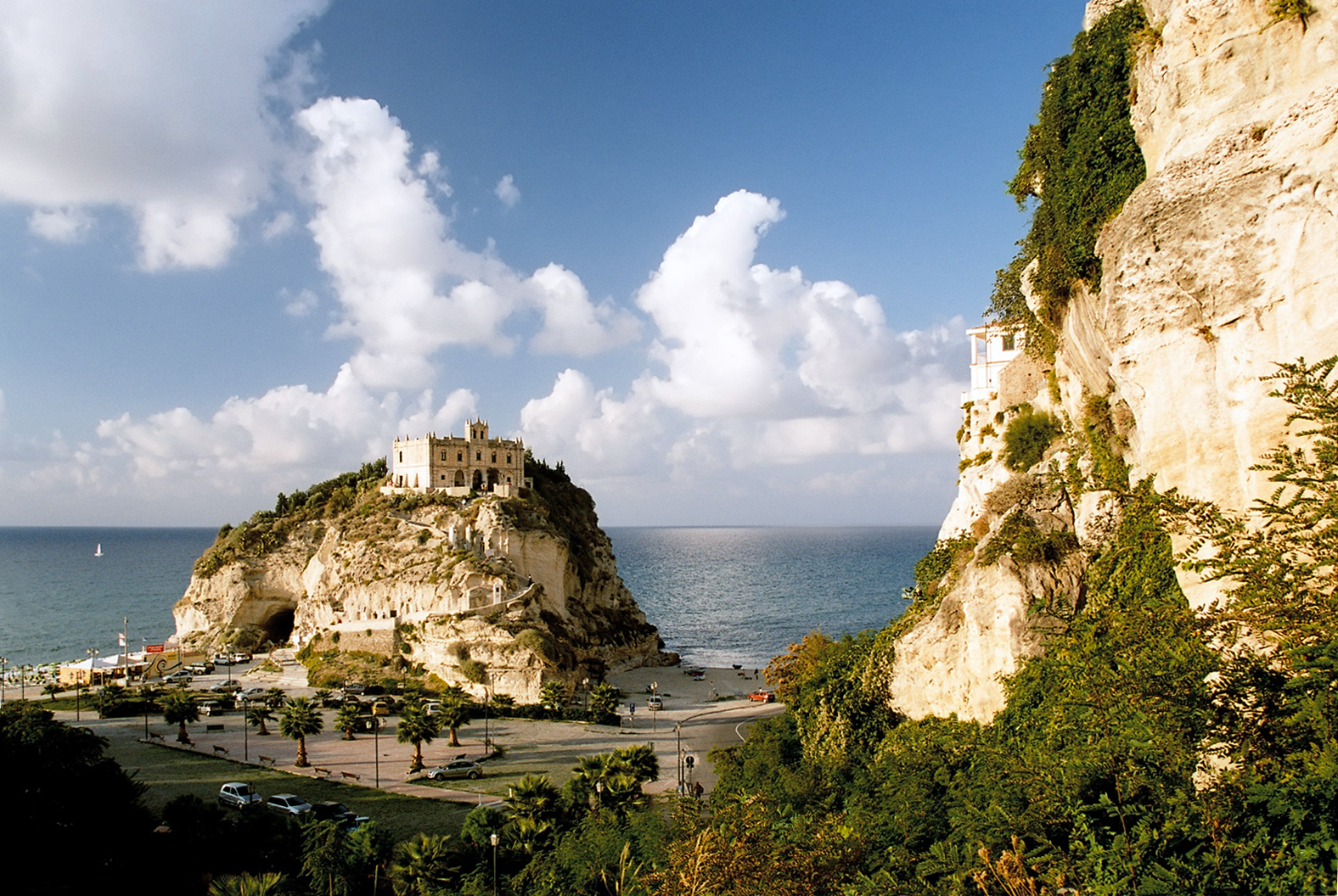 Church on an island, Tropea, Italy